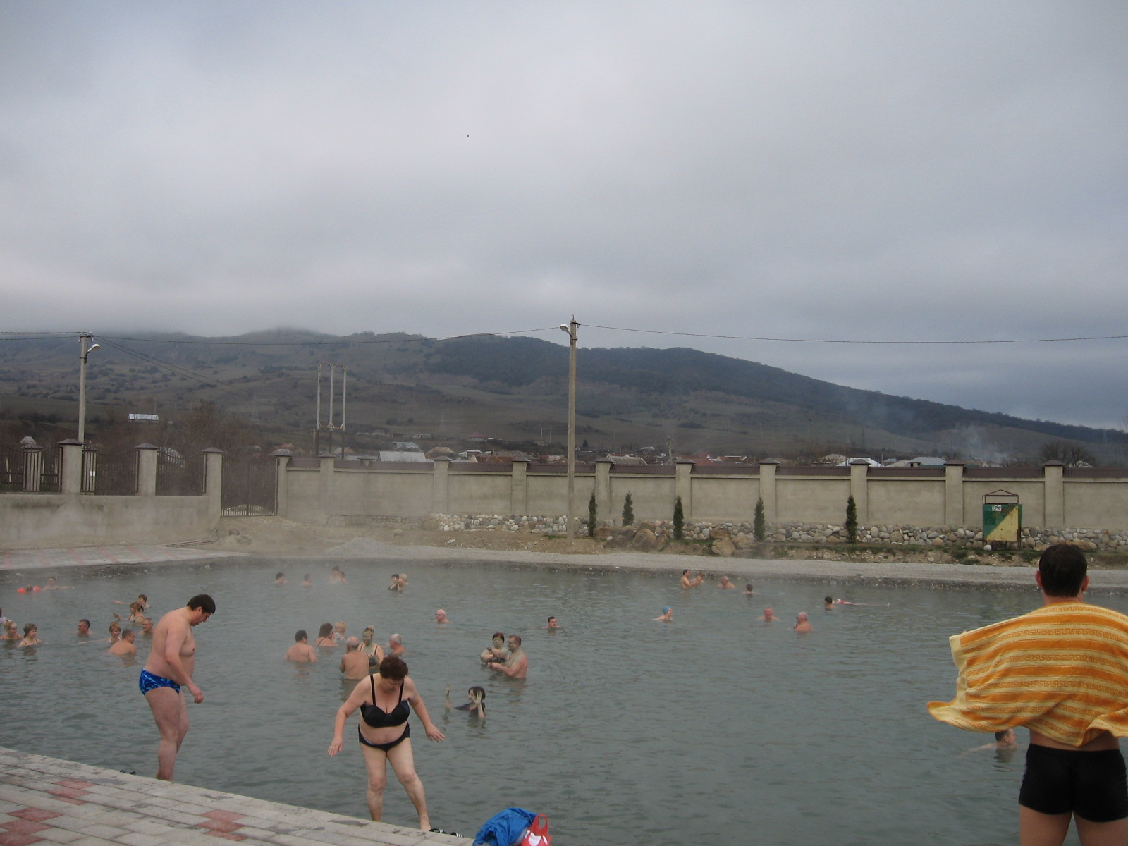 Aushiger. Village in Kabardino-Balkaria. Open swimming pool with hot water. Winter 2010